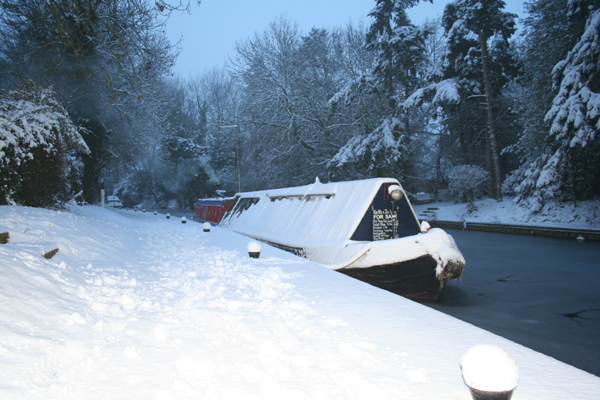 Working Narrow Boat snow and ice bound at Market Harborough, February 2012.